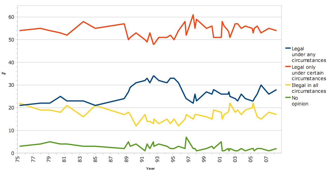 Responses of US adults from 1975-2008 to the question "Do you think abortions should be legal under any circumstances, legal only under certain circumstances, or illegal in all circumstances?" in polling by Gallup.